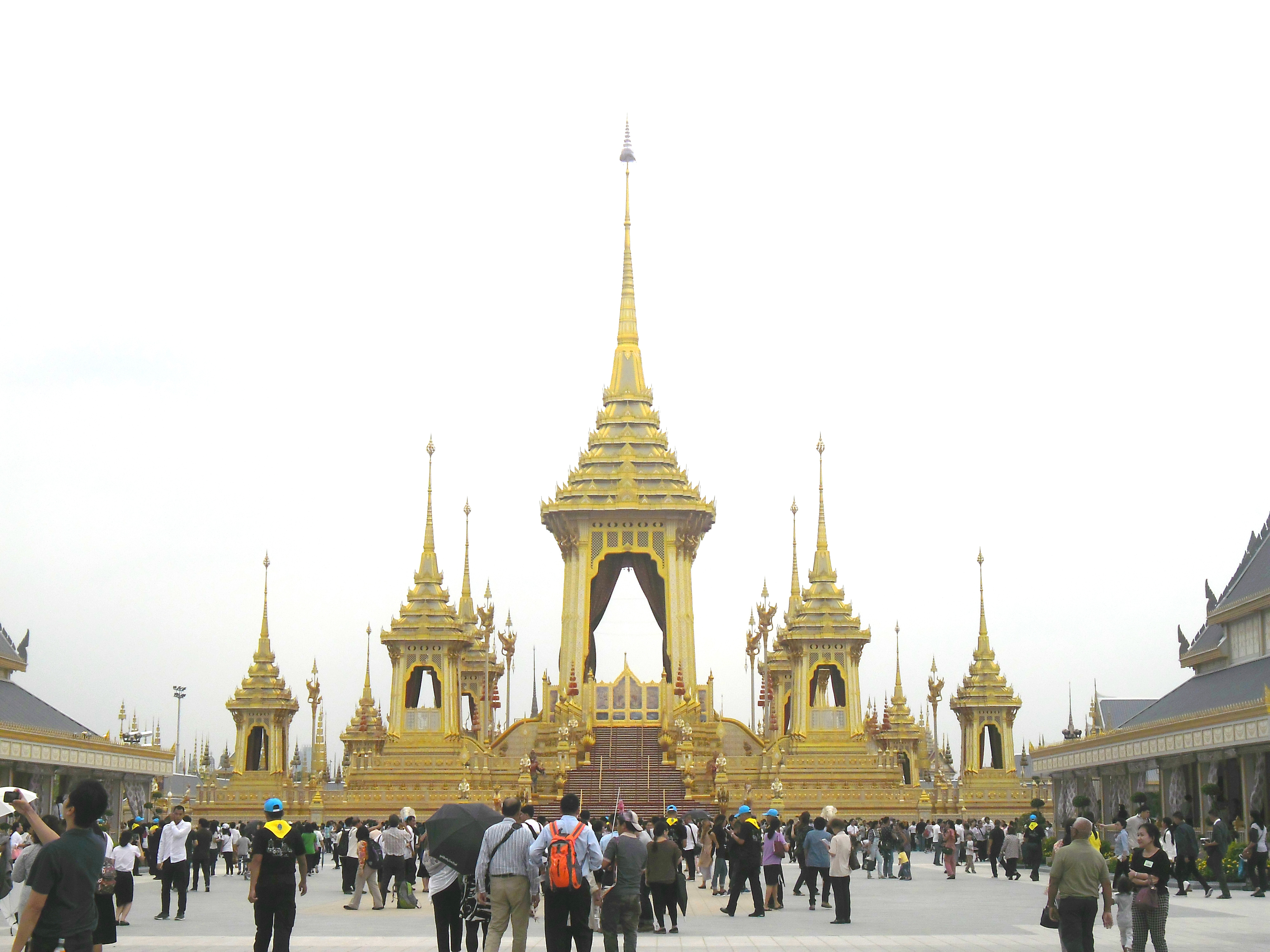 Royal crematorium of Bhumibol Adulyadej, as seen on November 5, 2017.